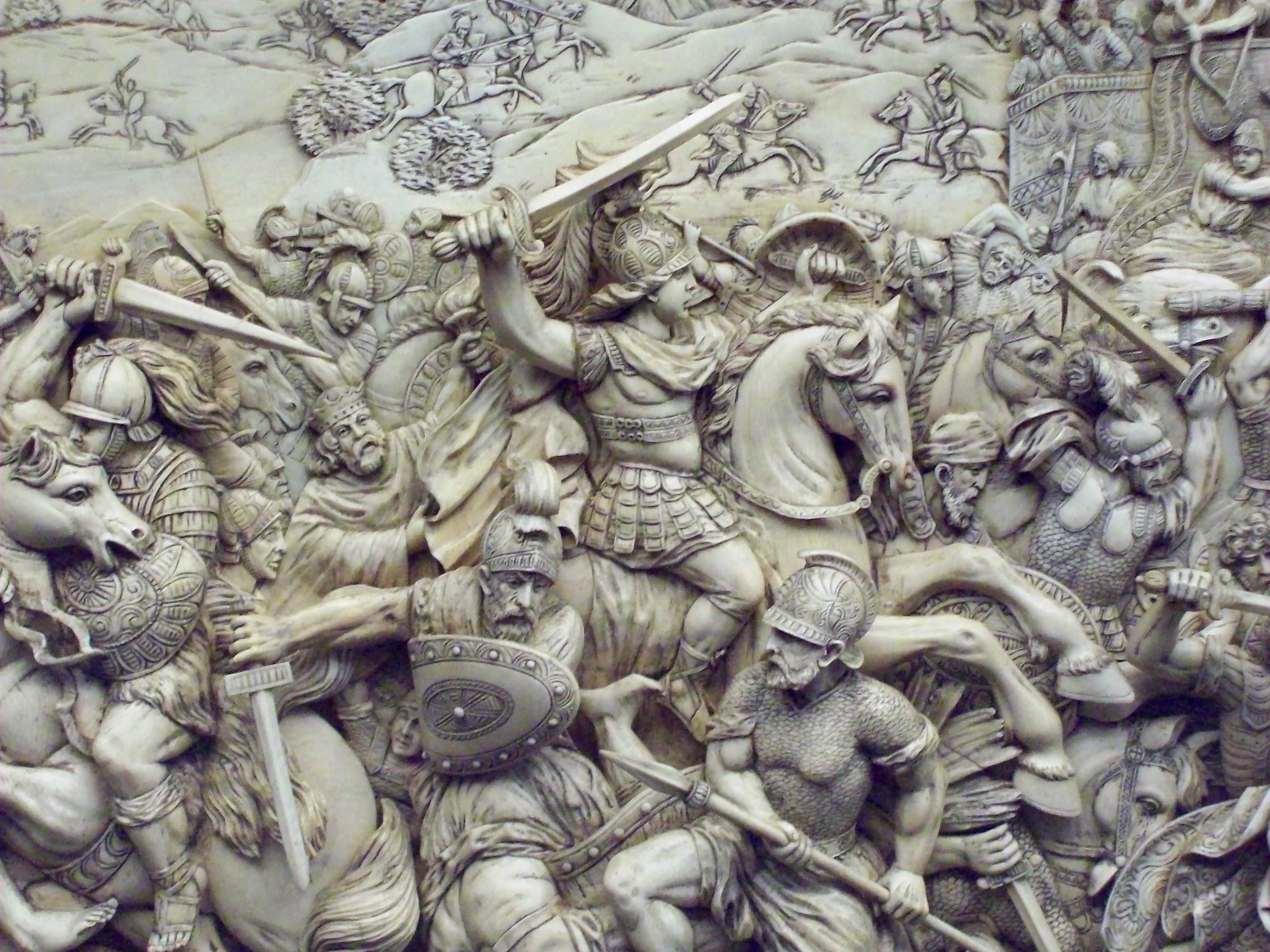 Detail: Alexander fighting and riding his horse Bucephalus.